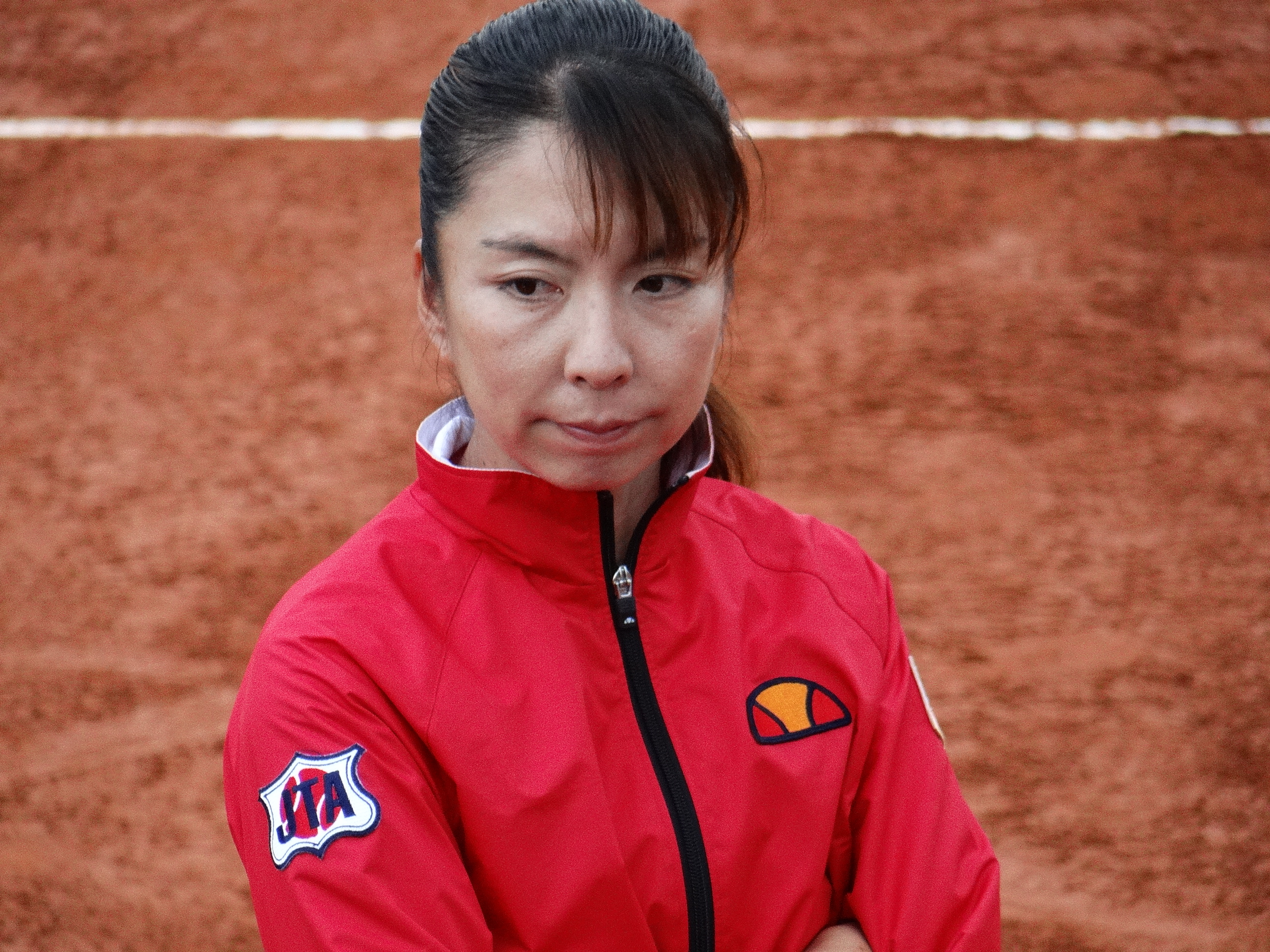 Yuka Kaneko, Japan Fed Cup Captain